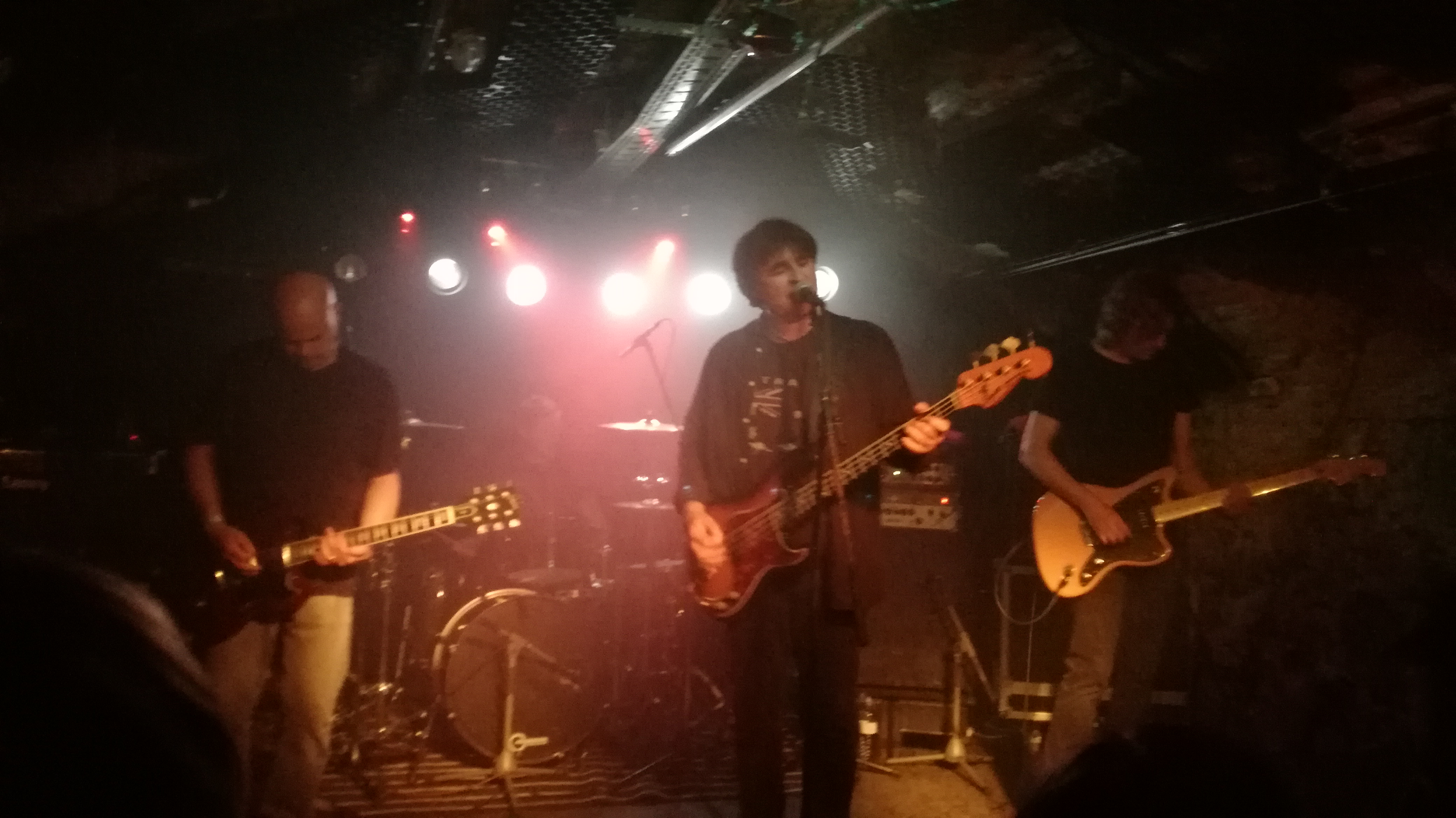 The Chameleons in Bratislava, 2018.